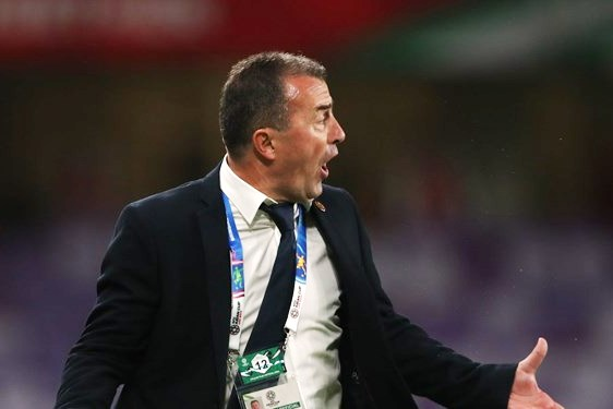 Lebanese coach Miodrag Radulović protesting during the 2019 AFC Asian Cup group stage game against Qatar.